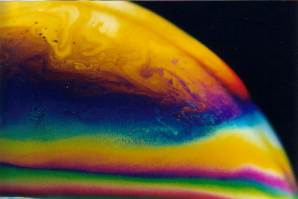 I made this bubble, a friend took the photo, I own the image. The image is also found at and included in the page